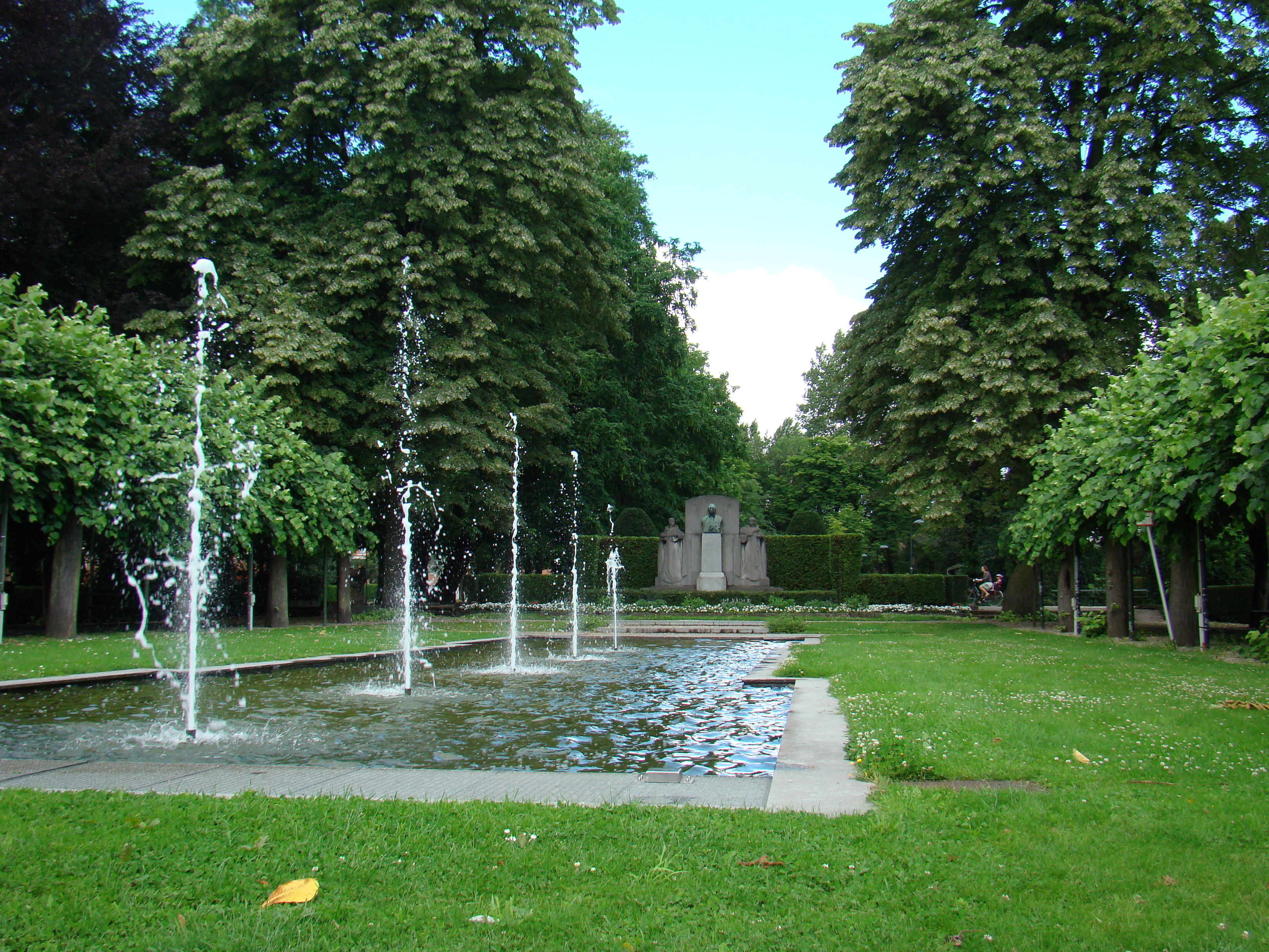 Astridpark , Kortrijk (West Flanders, Belgium)